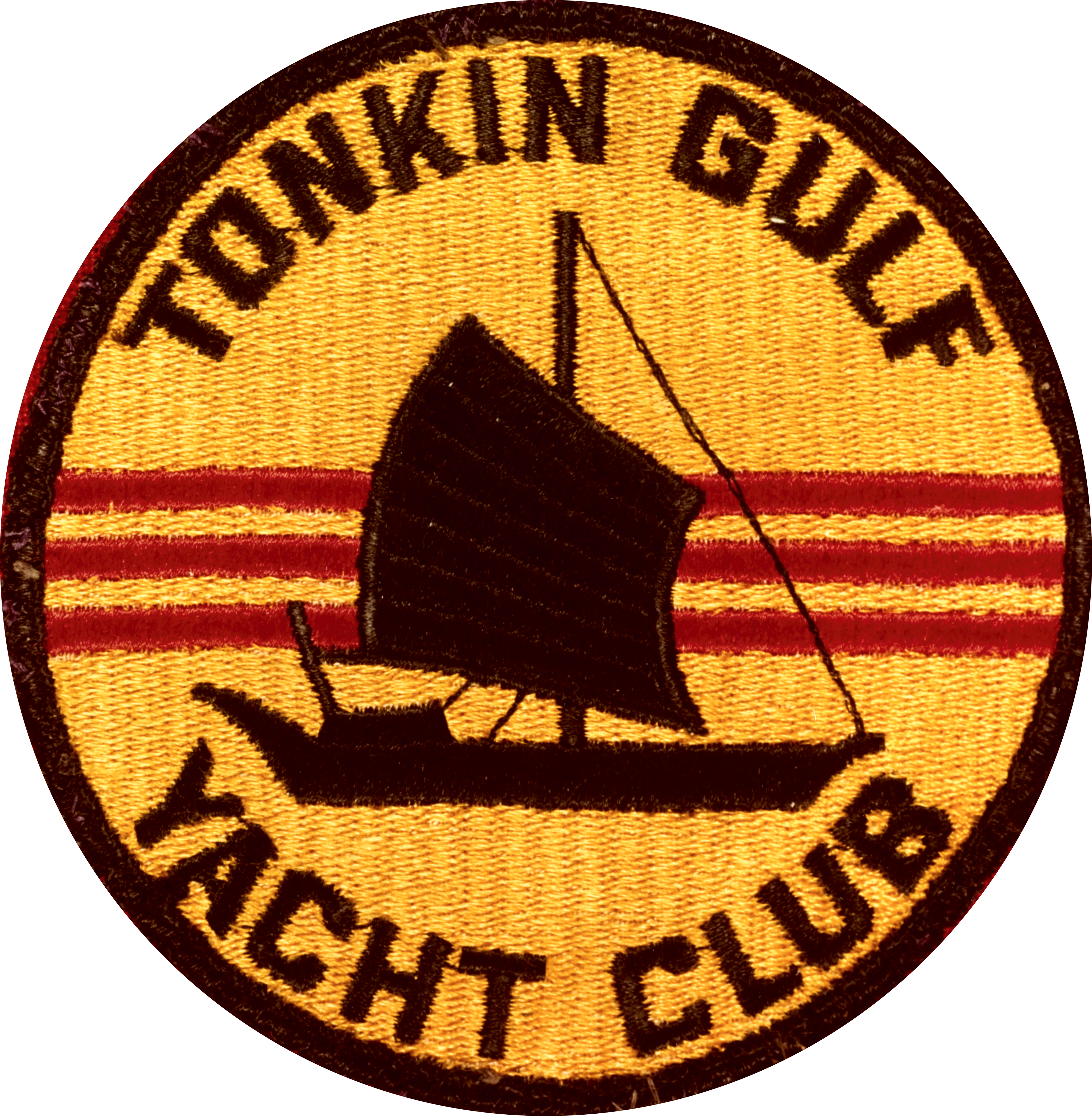 Tonkin Gulf Yacht Club was a tongue-in-cheek nickname for the United States Seventh Fleet during the Vietnam War. The name "Tonkin Gulf Yacht Club" was used from 1961 when the Seventh Fleet arrived to the waters off Vietnam and carried out most of its operations from the Gulf of Tonkin. Although the insignia for the Tonkin Gulf Yacht Club always remained unofficial, it became very popular. The yellow and red background colors are those of the flag of the Republic of Vietnam.